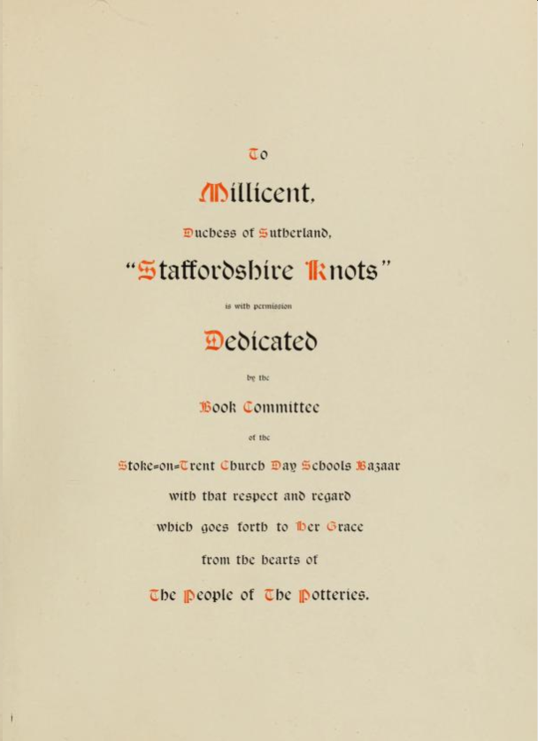 Limited edition bazaar books were sometimes sold at charity bazaars. They consisted of writings and artwork by celebrities, young people, and other donors.